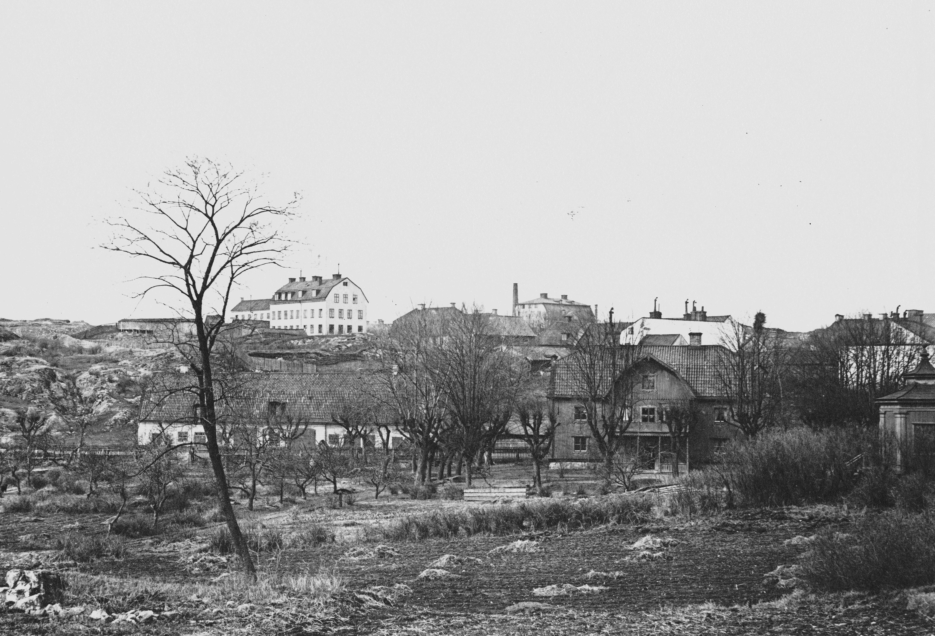 Zinkensdamm, photograph produced in 1890